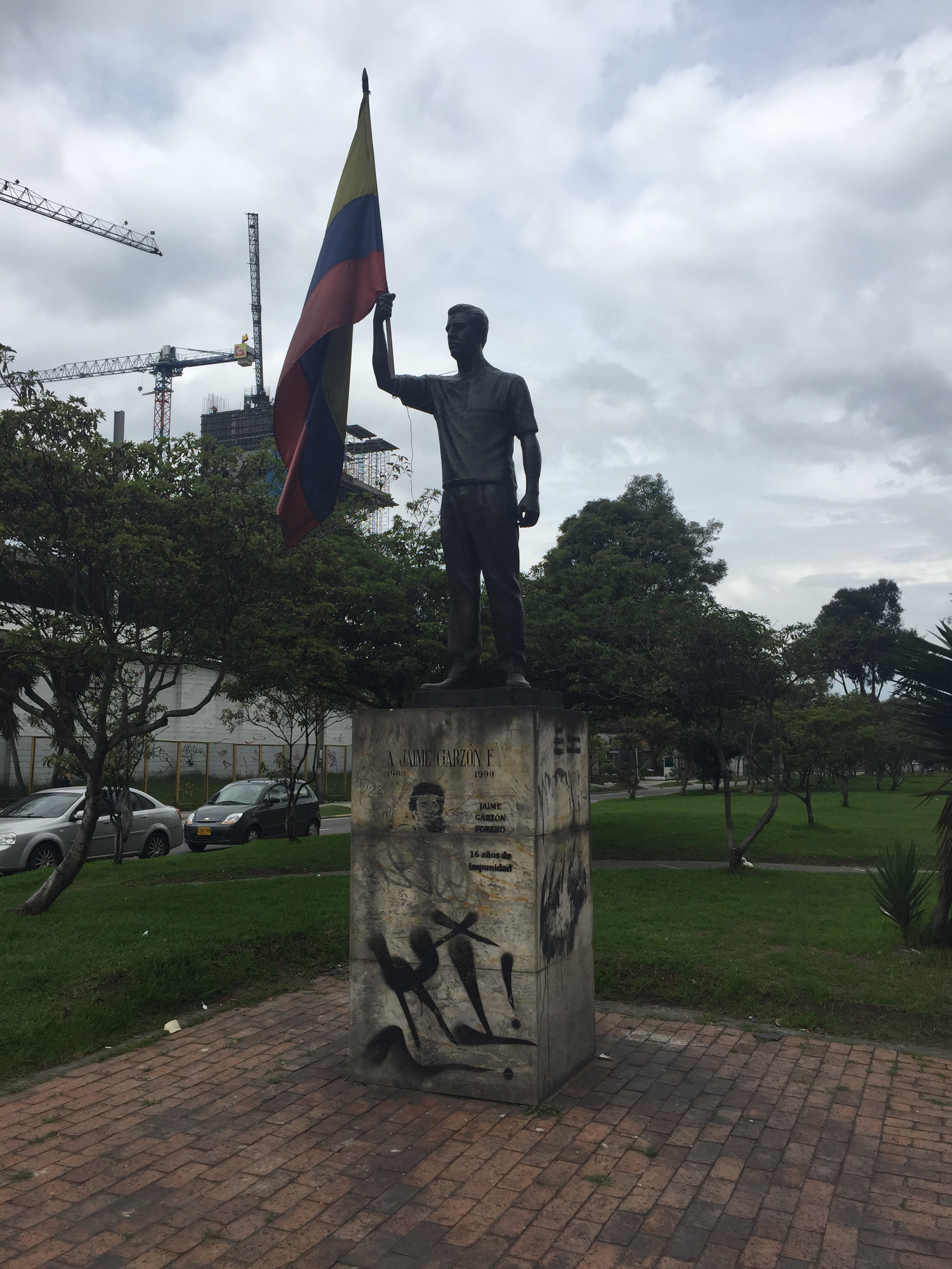 Statue of Jaime Garzón